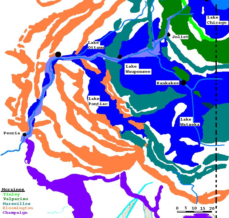 Designed from 1942 - Illinois Glacial Lakes by George, E. Eckblaw from Earth Science Field Trip, Guide Leaflet, Kankakee Area, Kankakee High School; May 18, 1957; John C. Frye; State Geological Survey; Urbana, Illinois; 1957 GeoT 2000, Jan 5